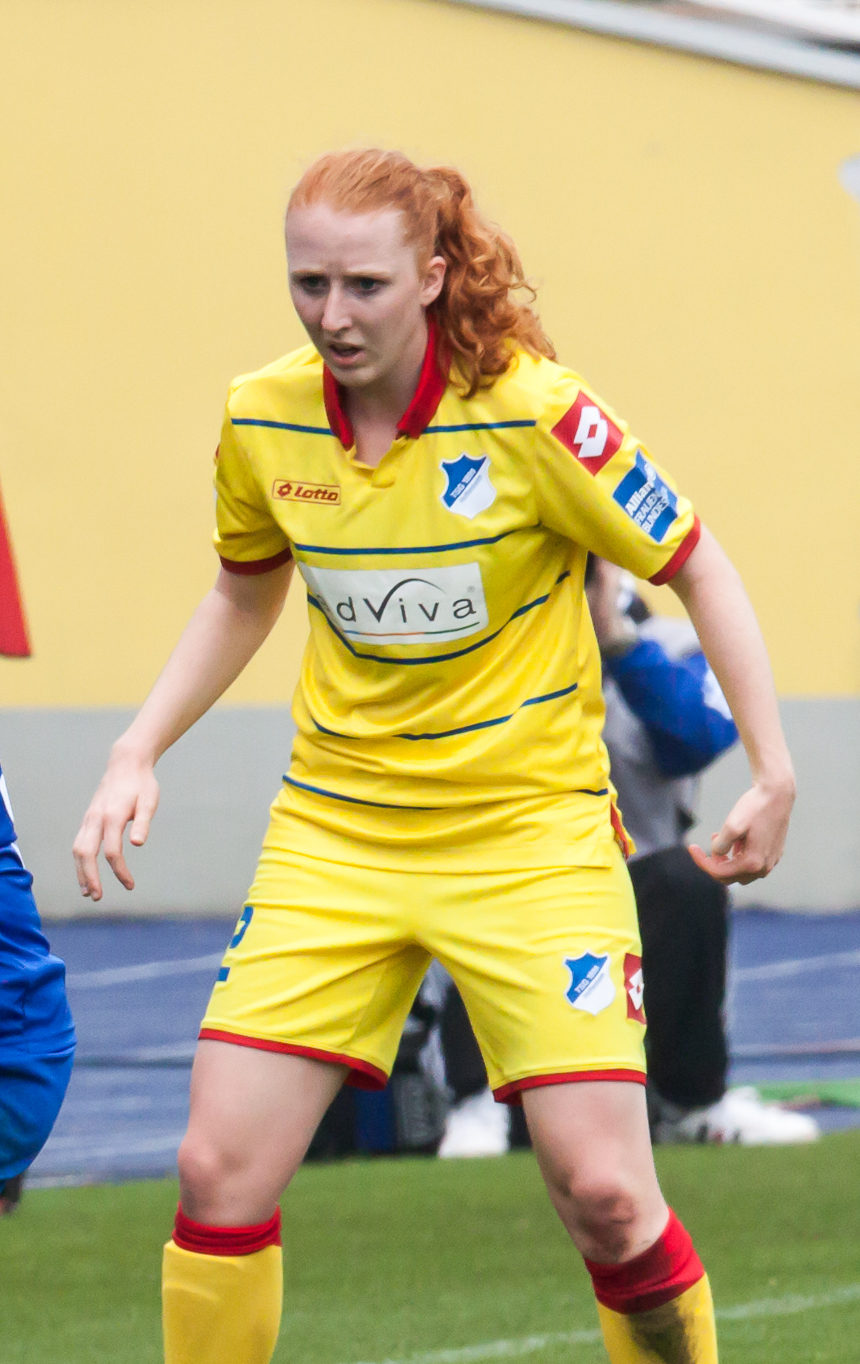 German Women Bundesliga soccer game: FF USV Jena vs. TSG 1899 Hoffenheim, 2014-10-11, at Ernst-Abbe-Sportfeld Jena.